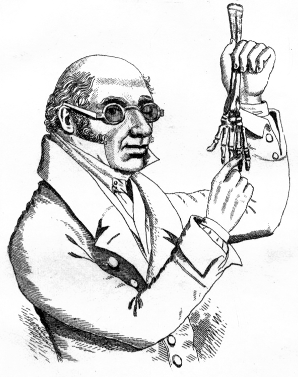 photograph of a portrait of Knox teaching anatomy in Edinburgh.